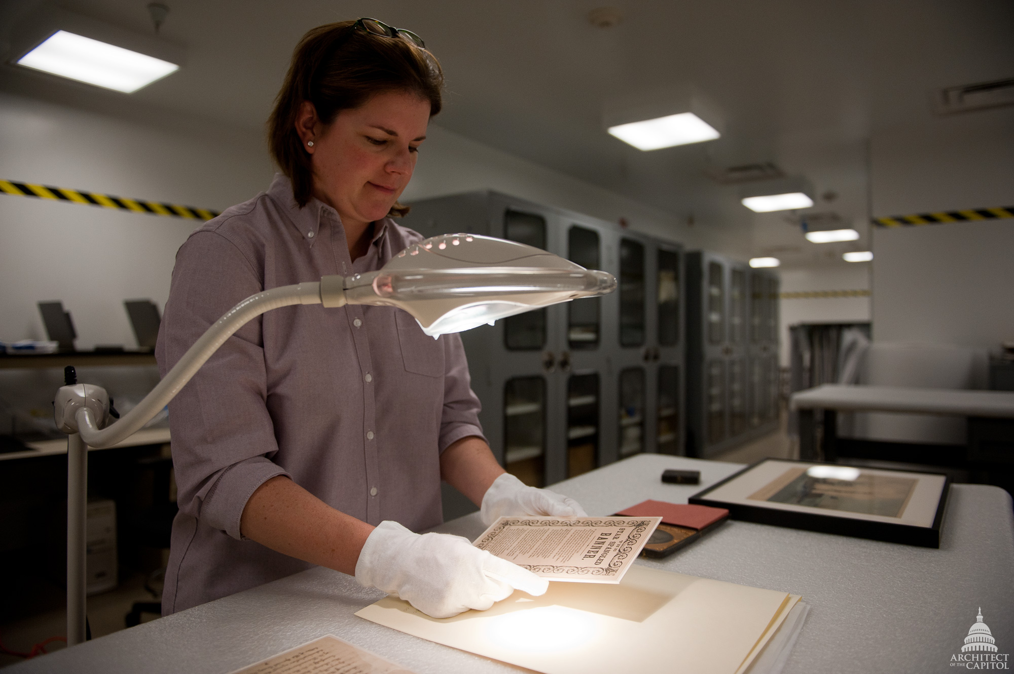 AOC Registrar examines artifacts to go on display in the Civil War exhibit at the Capitol Visitor Center. The exhibition of Civil War-related documents and artifacts is on display in the U.S. Capitol Visitor Center’s Exhibition Hal. This official Architect of the Capitol photograph is being made available for educational, scholarly, news or personal purposes (not advertising or any other commercial use). When any of these images is used the photographic credit line should read “Architect of the Capitol.” These images may not be used in any way that would imply endorsement by the Architect of the Capitol or the United States Congress of a product, service or point of view. For more information visit